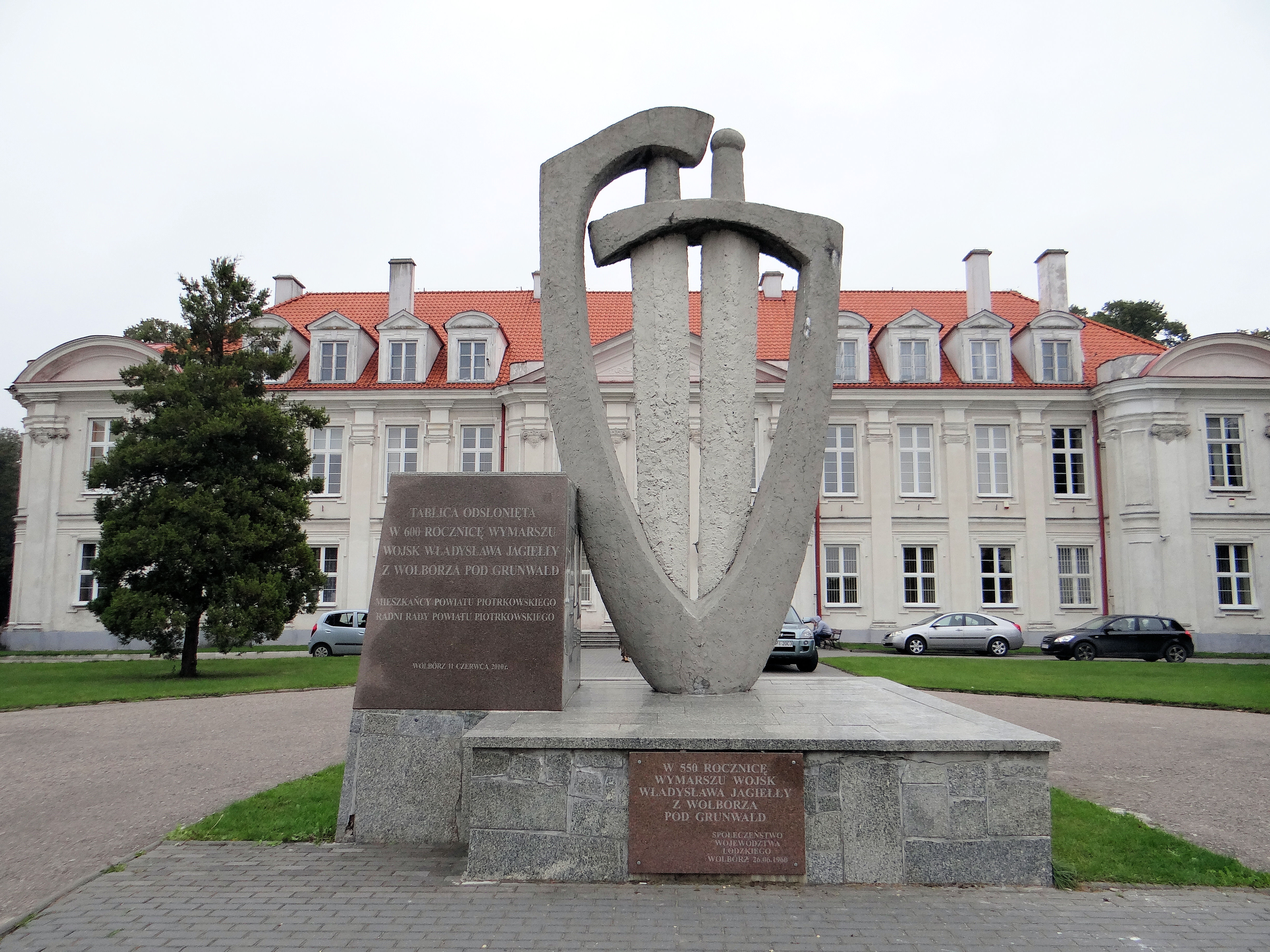 Monument in the courtyard of the Bishop Palace in Wolbórzz